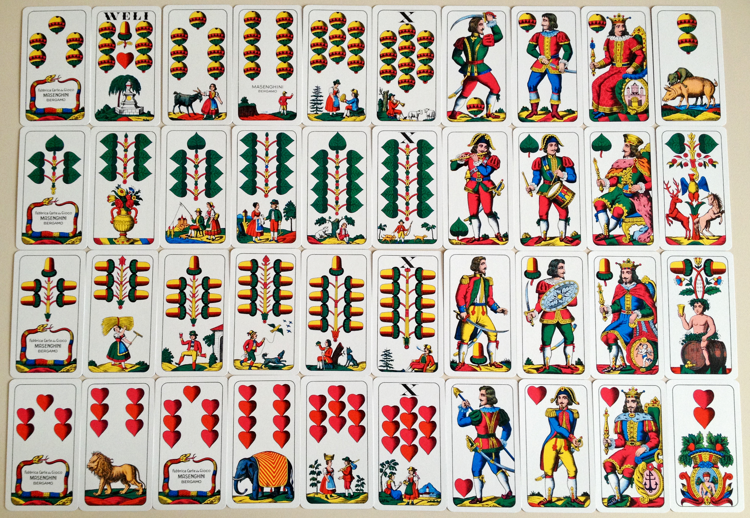 Photo of Salzburg pattern playing cards. They are used in Austria, Liechtenstein, and Italy. This pattern is a 19th century offshoot of the Old Bavarian pattern. Since the 1980s, Italian manufacturers have included 5s to let South Tyroleans play Italian games. The ones in this picture were made by Masenghini, a Dal Negro brand.